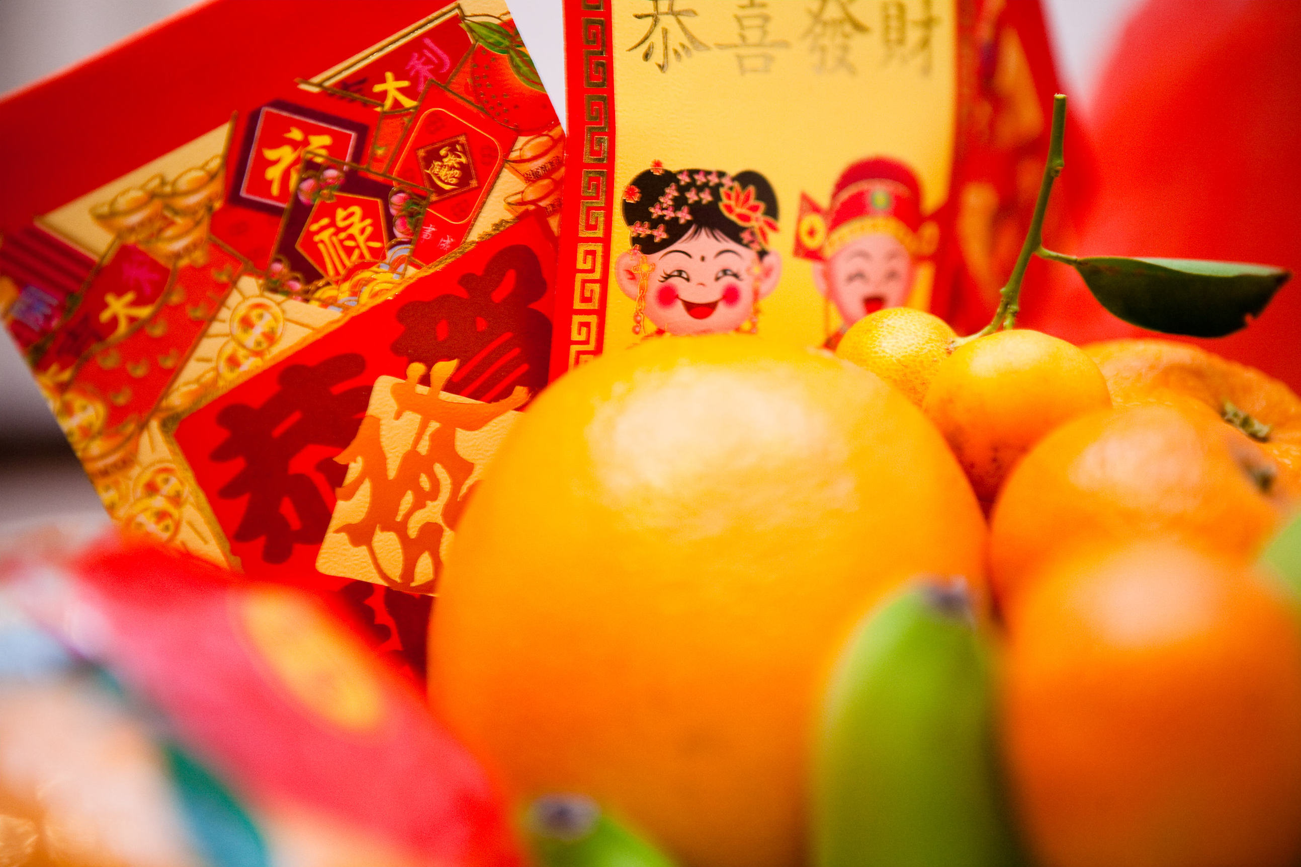 Happy Chinese New Year